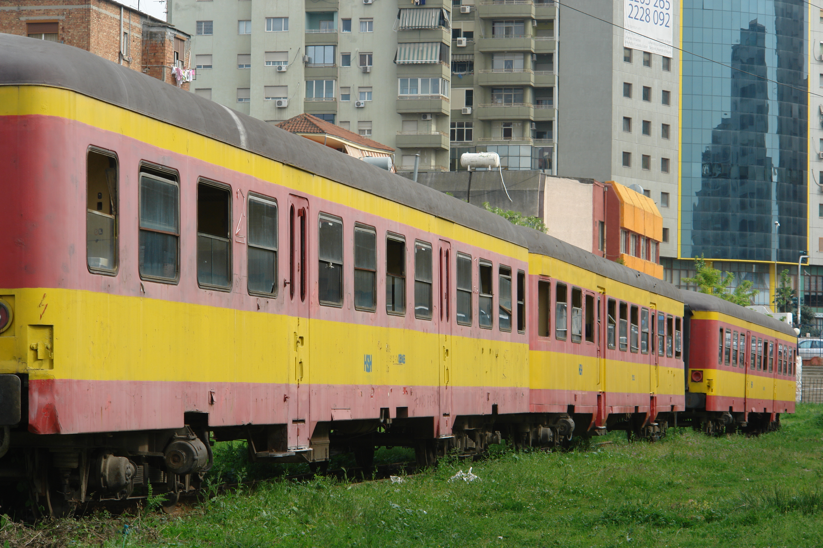 Tirana Railway Station